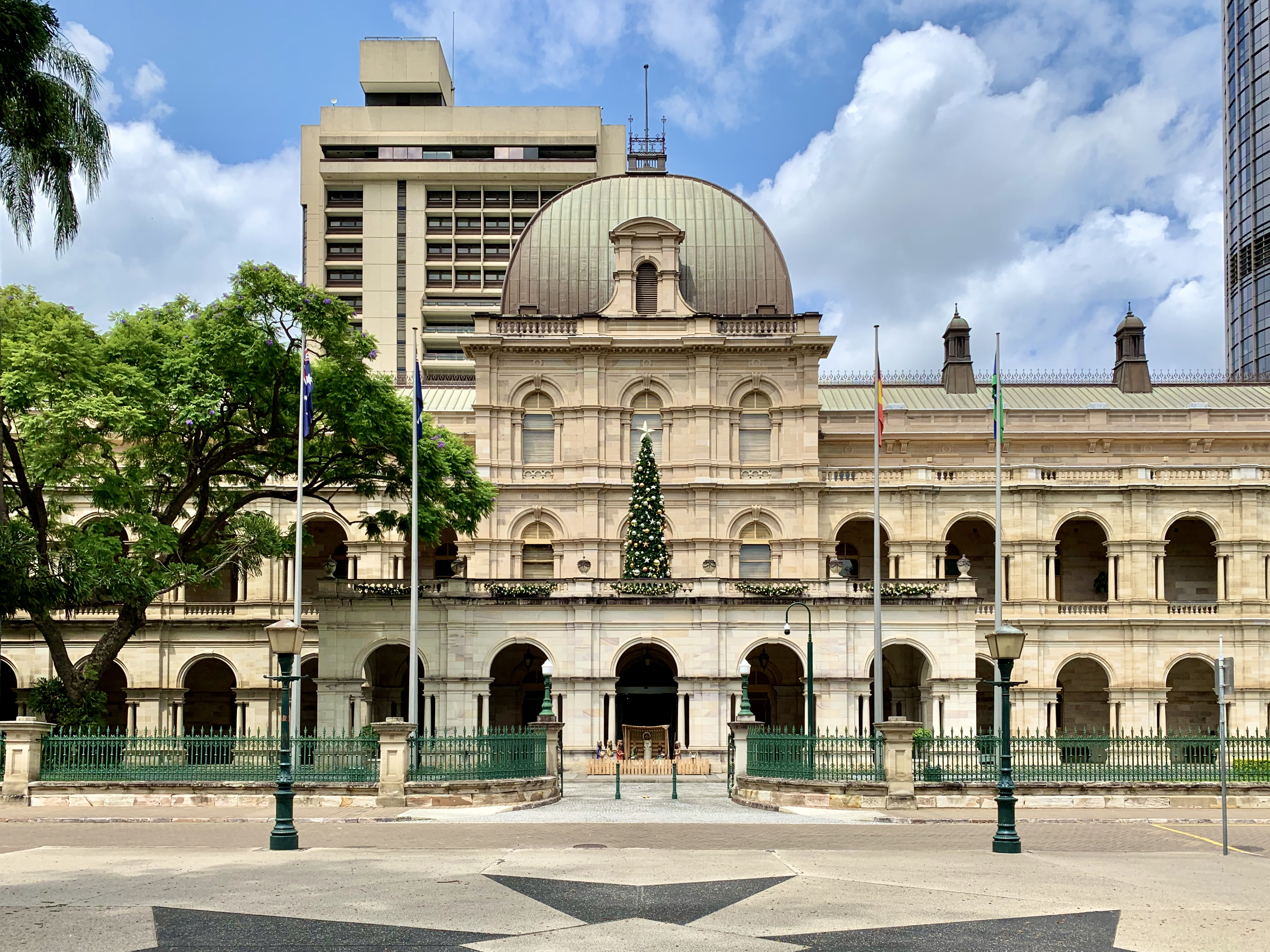 Parliament House, Brisbane, Queensland with Christmas tree in 2019